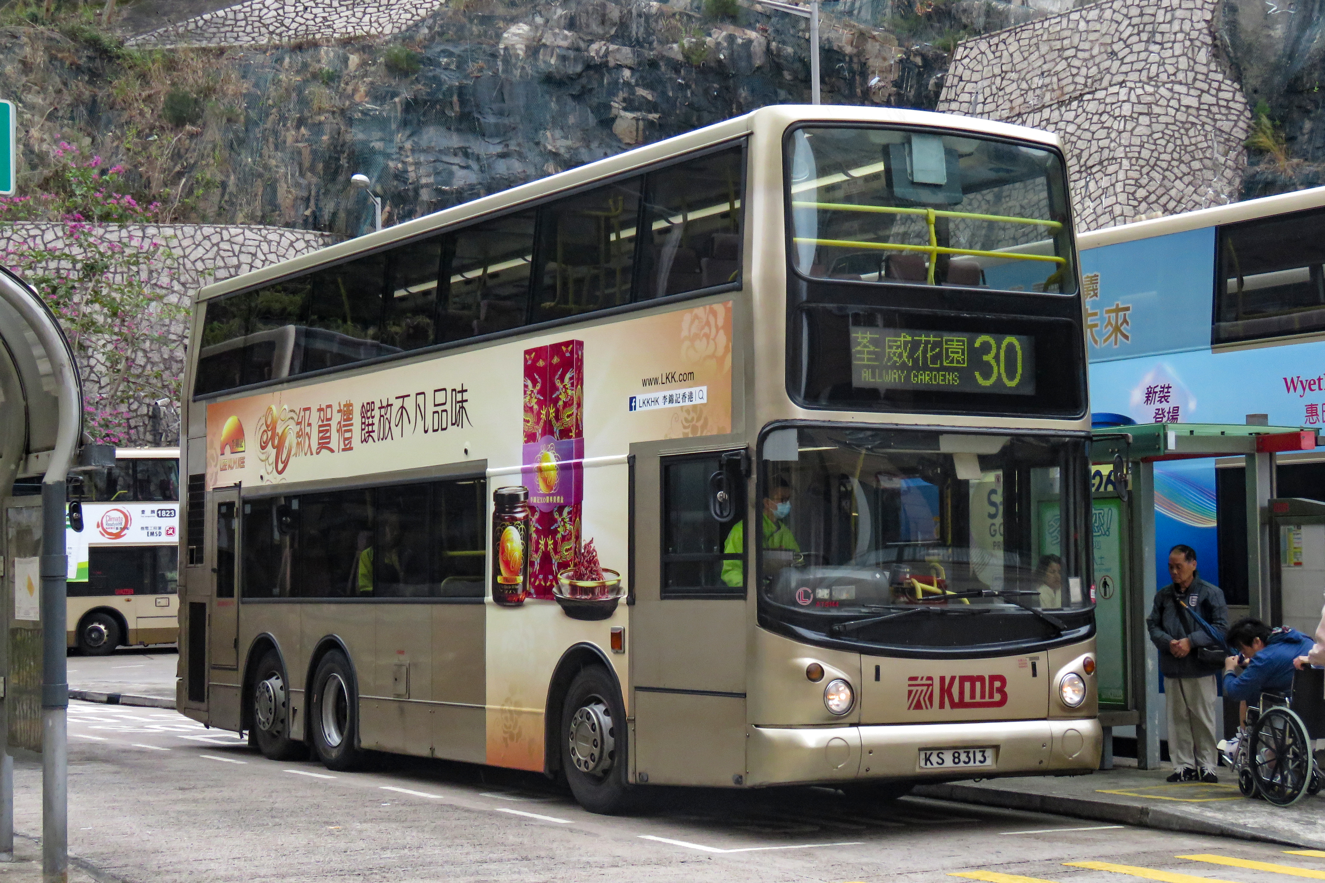 Also constrained by Cho Yiu.